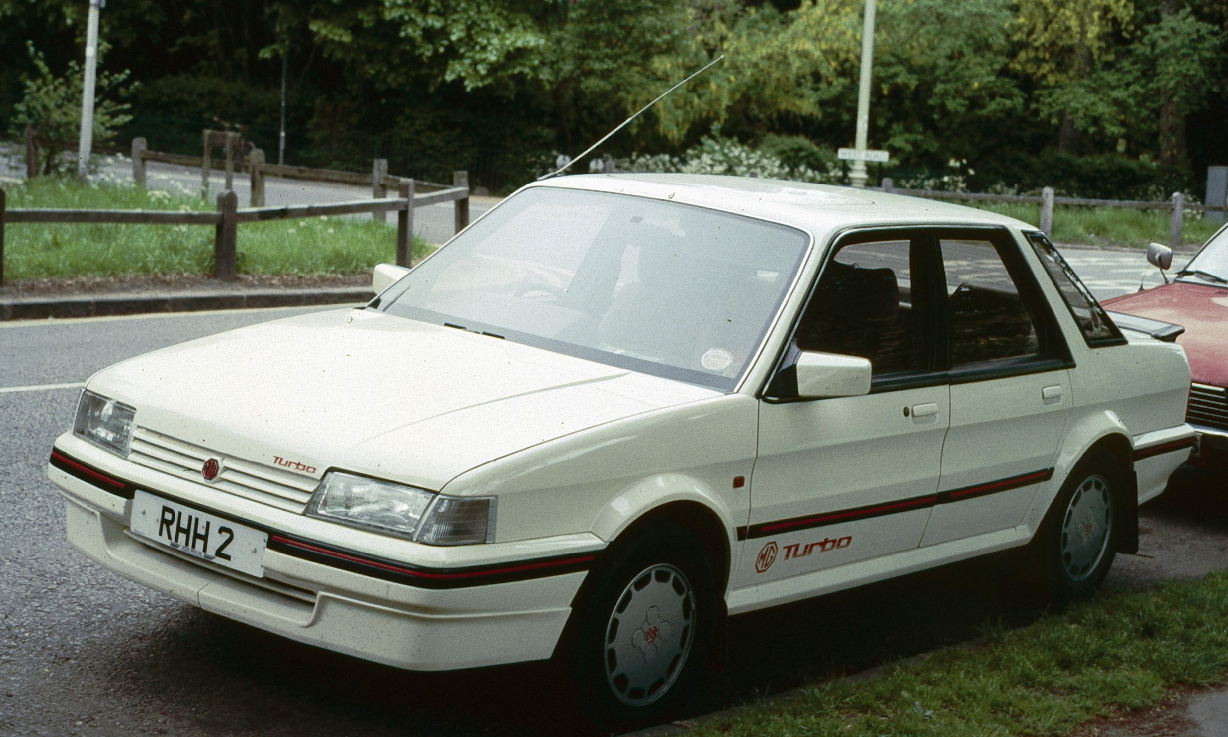 MG Montego opposite the eastern end of Burrell's Walk in Cambridge